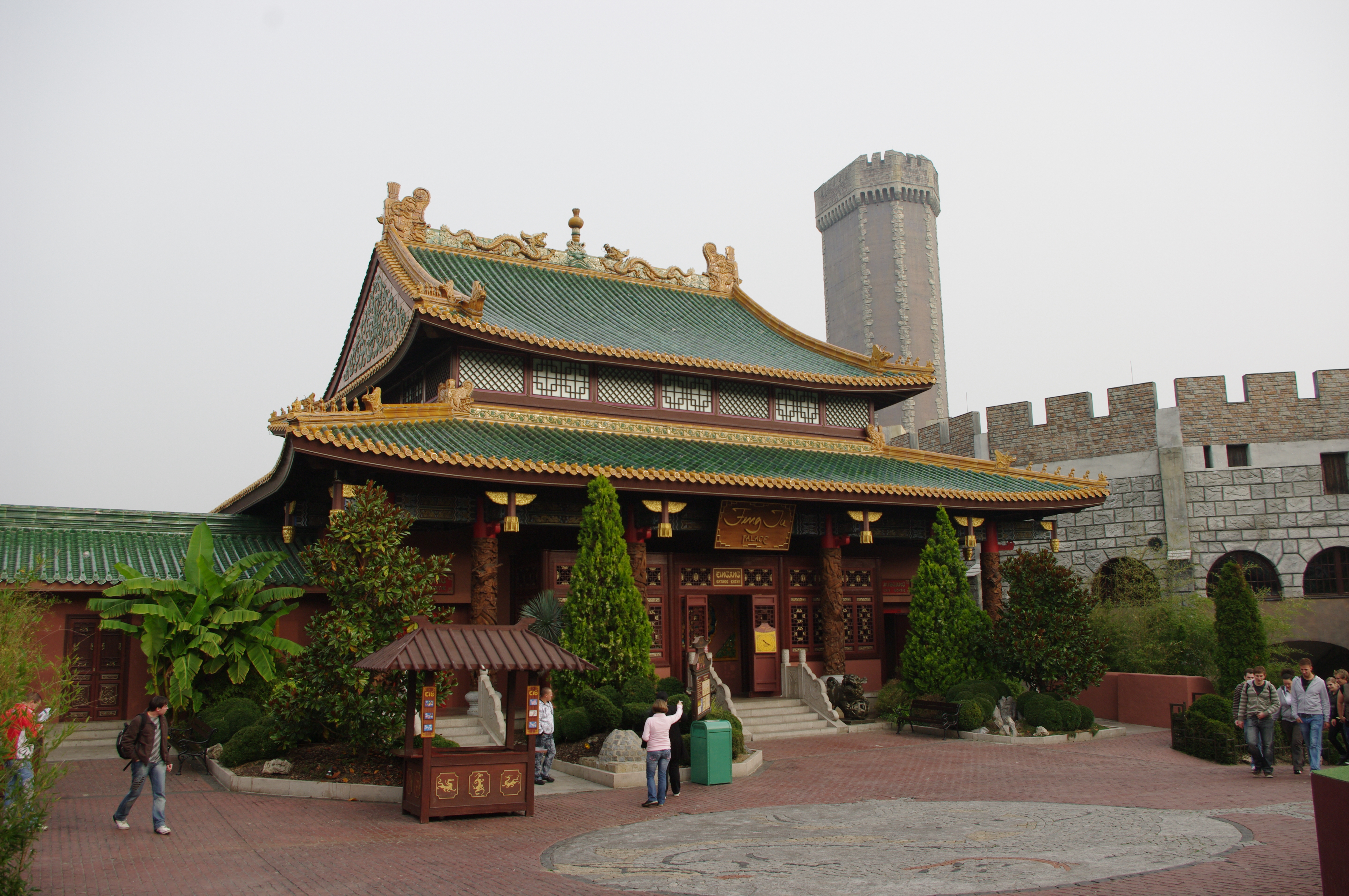 Feng Ju Palace in Phantasialand